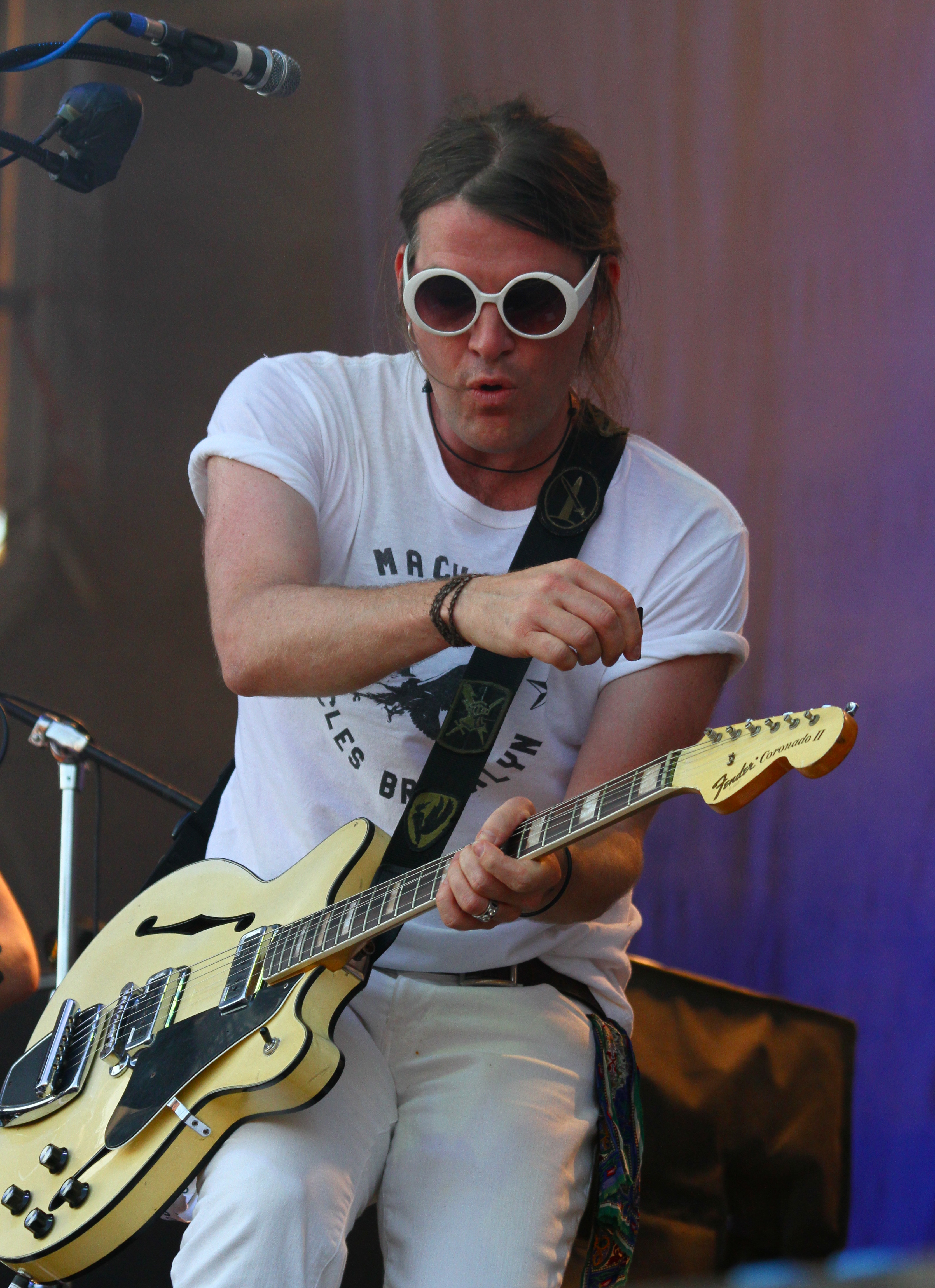 The Dandy Warhols at the 2012 Frequency Festival